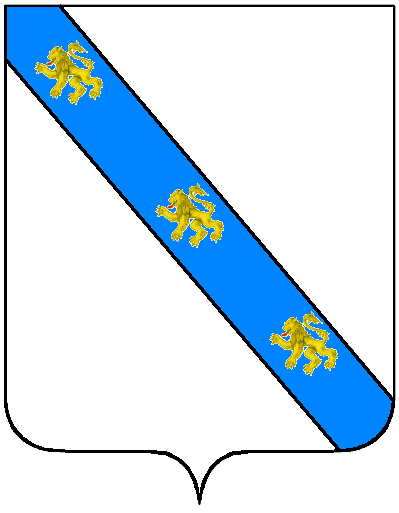 Coat of Arms of Sarriod family